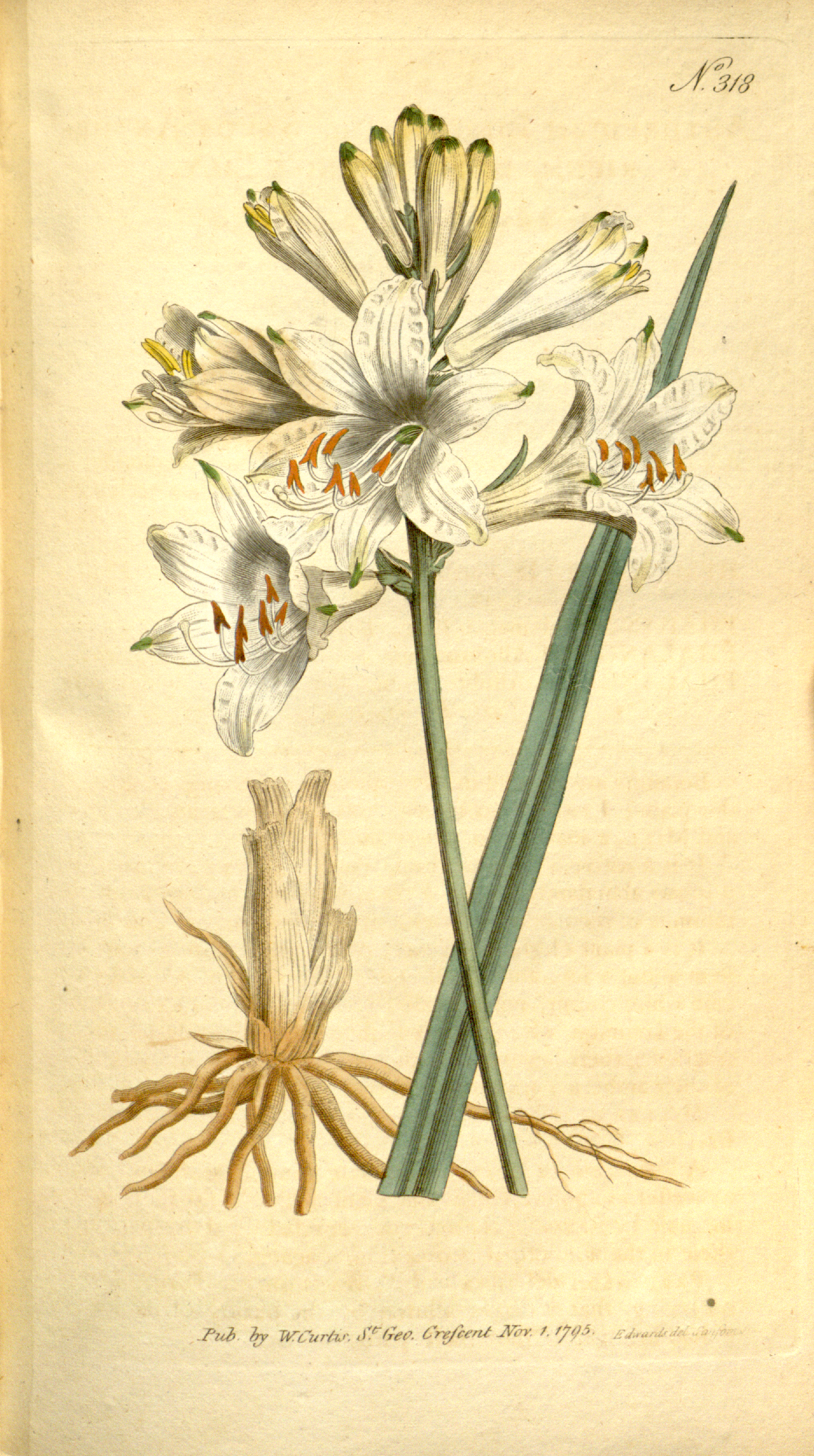 This is a plate from The Botanical Magazine, Volume 9.